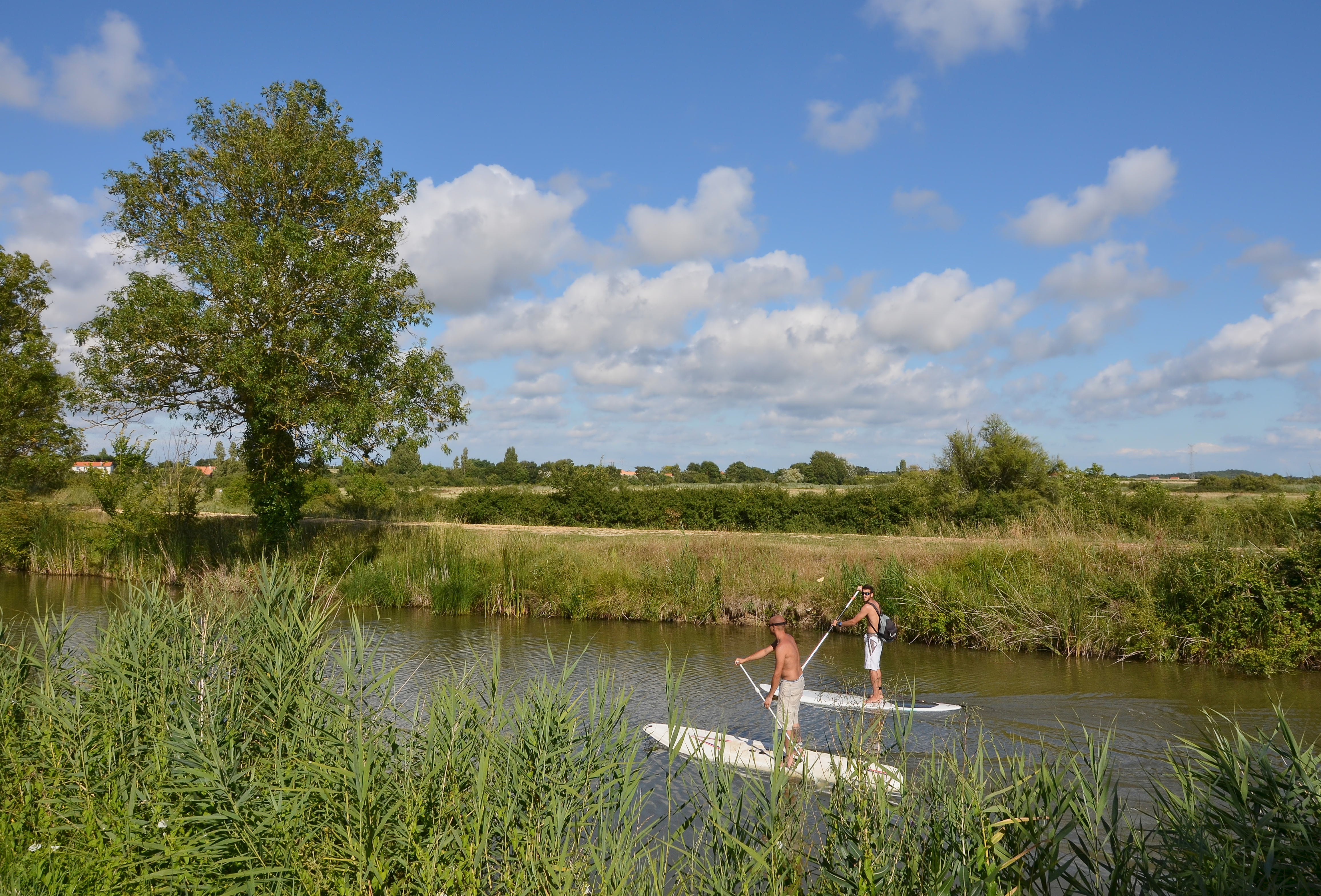 Stand up paddels on the channel from river Seudre to river Charente, Marennes, Charente-Maritime, France.